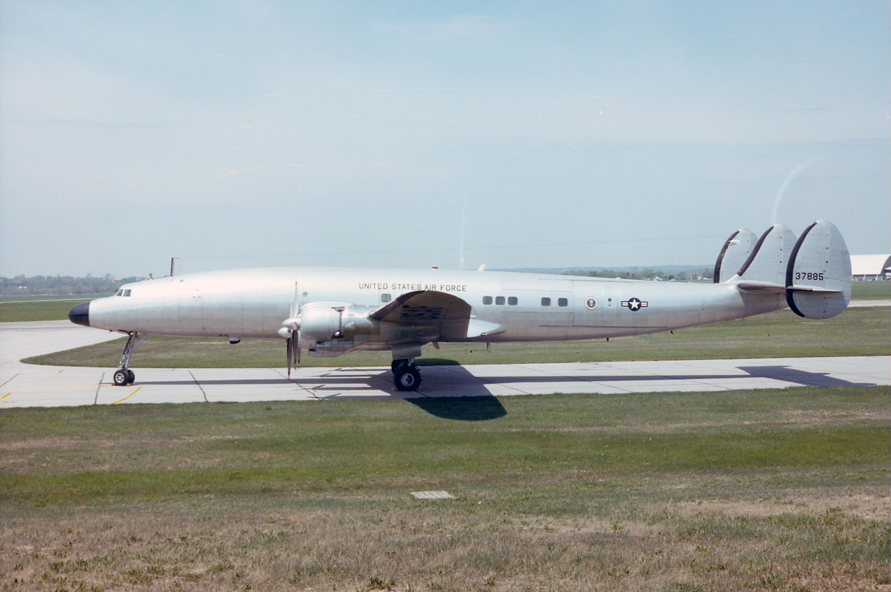 The U.S. Air Force Lockheed VC-121E Super Constellation (53-7885, c/n 4151) at the National Museum of the United States Air Force. The aircraft had been ordered by the U.S. Navy as the R7V-1 BuNo 131650 and was diverted during construction to conversion as a presidential aircraft. It was operated throughout the Eisenhower administration as "Colombine III" and replaced in October 1962 by a Boeing VC-137C. The aircraft is today on display at National Museum of the USAF.